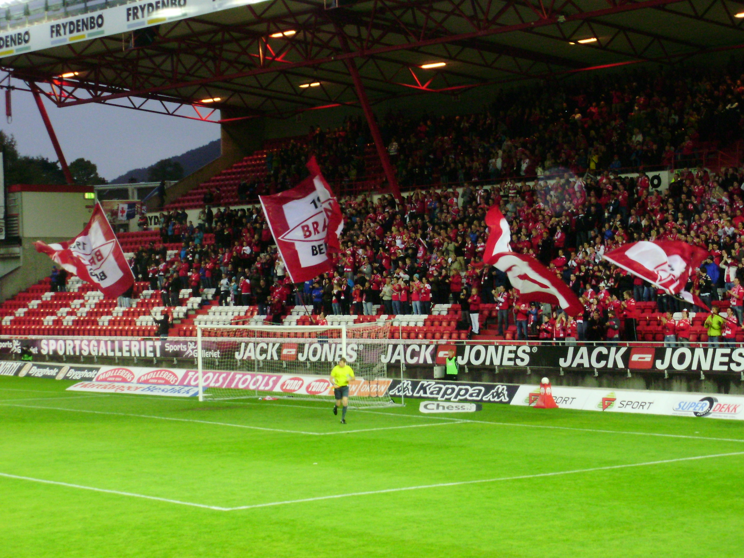 Brann Stadion. UEFA Cup match: Brann vs. Deportivo